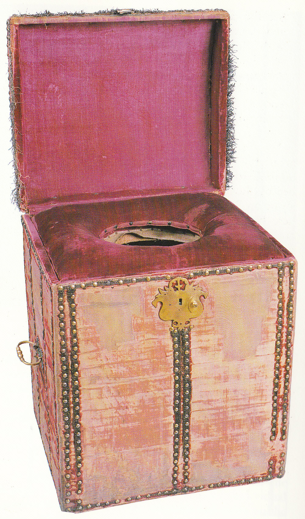 Close stool (Commode), circa 1650. Hampton Court collection, United Kingdom.